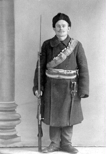 Red leader from the Finnish civil war